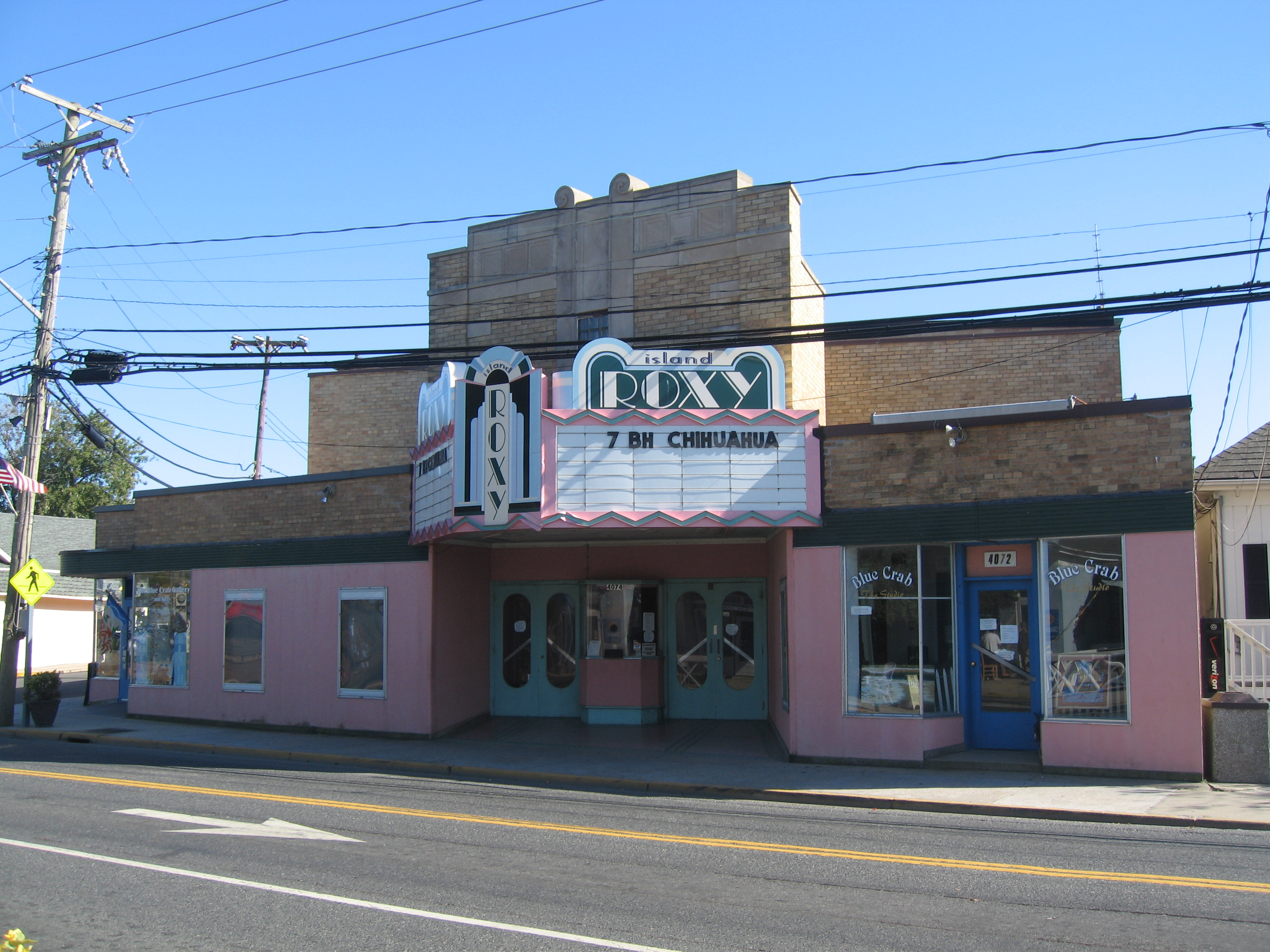 Front view of the Island Roxy theatre, 4074 Main Street, Chincoteague Island, Virginia.